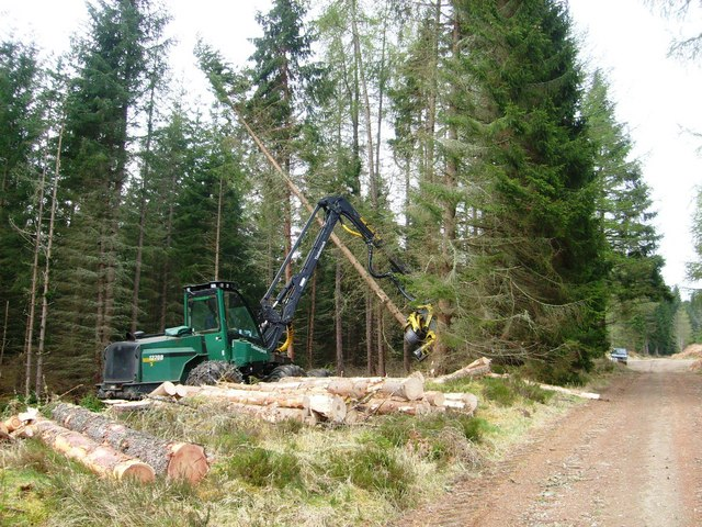 Dalreoch Wood: timber harvesting. This beast, a Timberjack harvester, fells a tree, removes the branches, cuts to length and stack in about 30 seconds. The operator's 4x4 had an Irish reg plate.